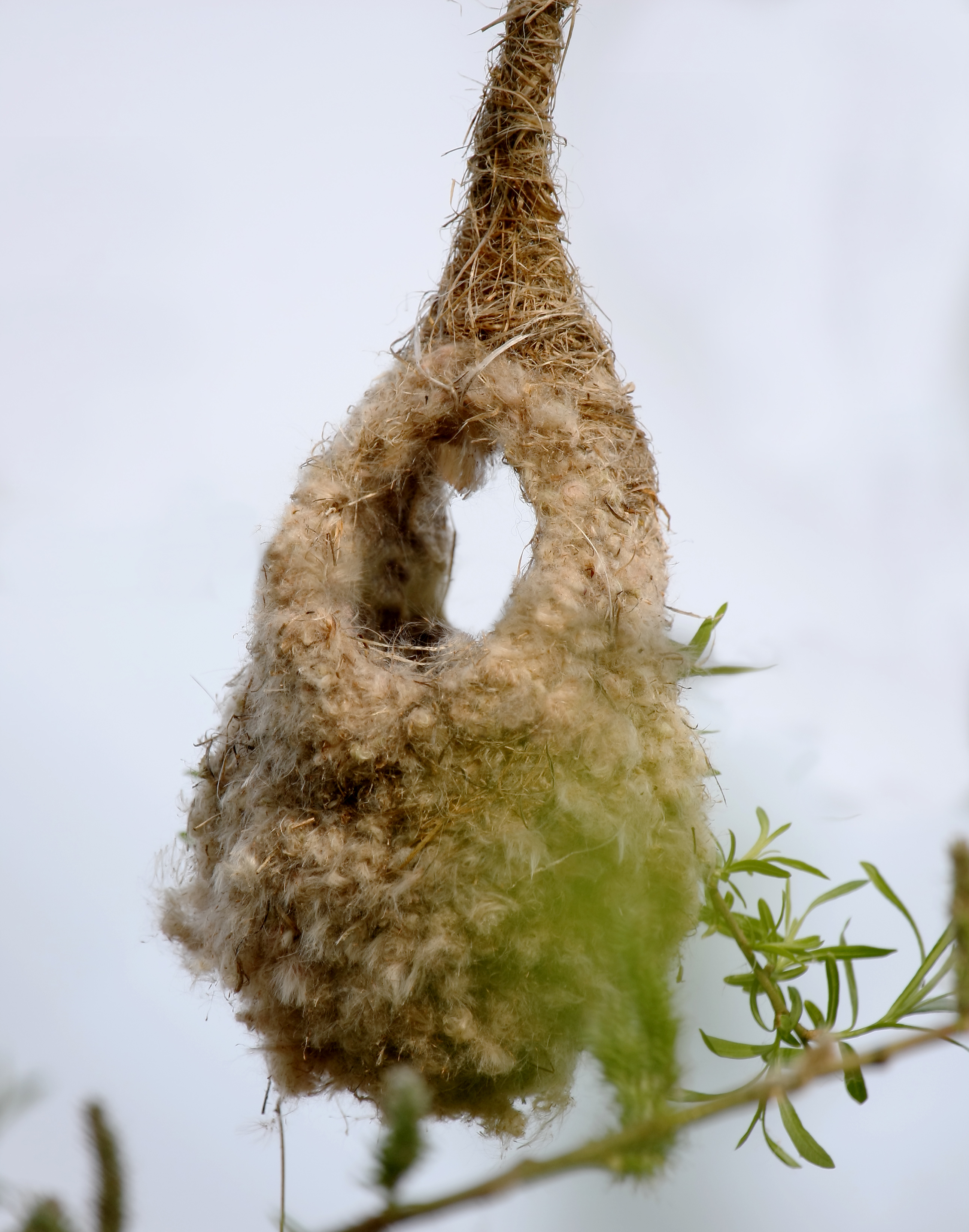 European Penduline Tit unfinished nest